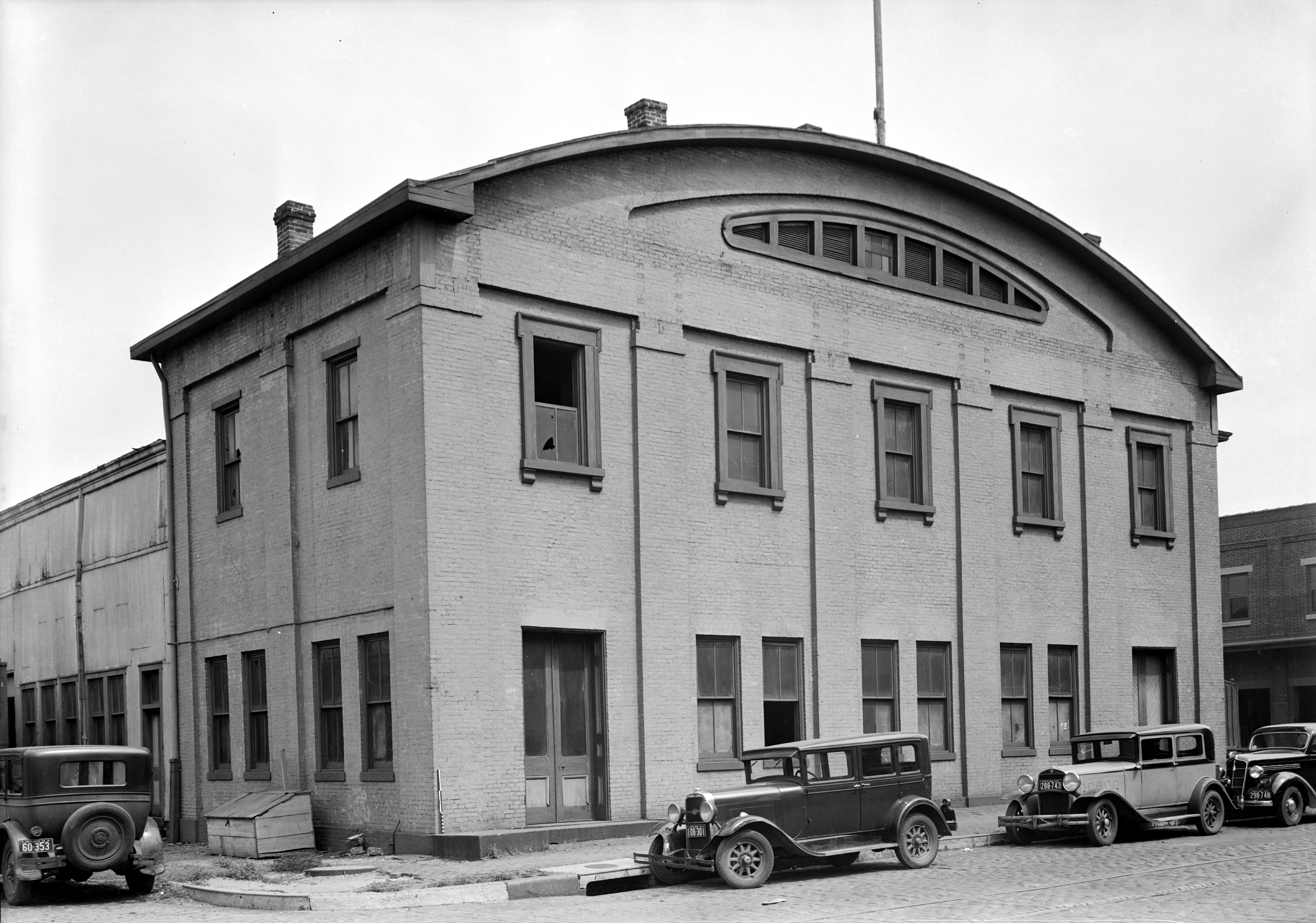 View of President Street Station, Baltimore, Maryland. Built by the Philadelphia, Wilmington and Baltimore Railroad (PW&B) in 1850. With the opening of Baltimore Union Station (now called Penn Station) in 1873, the President Street Station became principally a freight station. Behind the head house (on the left) is the train shed that was added in 1913 and replaced the original 1850 shed.